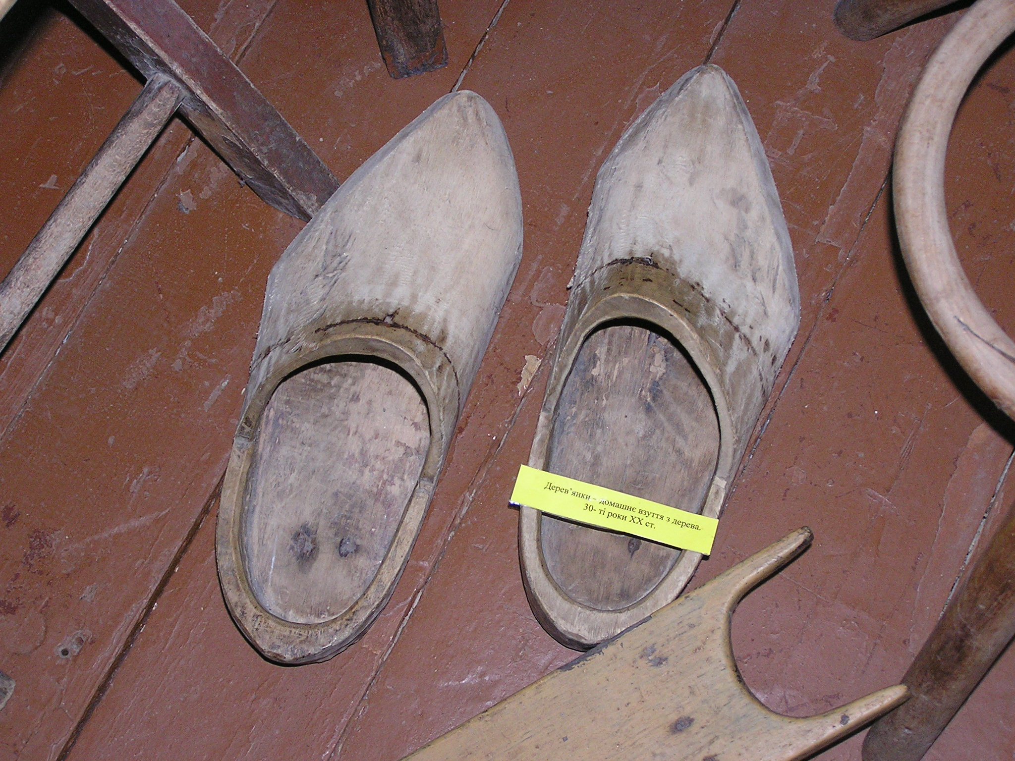 History museum of Truskavets History Museum of Truskavets Native nameМузей истории г. ТрускавецLocationTruskavetsCoordinates49° 16′ 39.5″ N, 23° 30′ 23.96″ E Established29 December 1982 Authority control : Q12130489 institution QS:P195,Q12130489